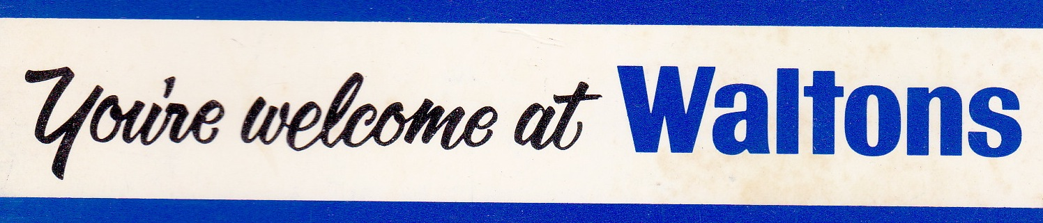 Walton's advertising slogan.